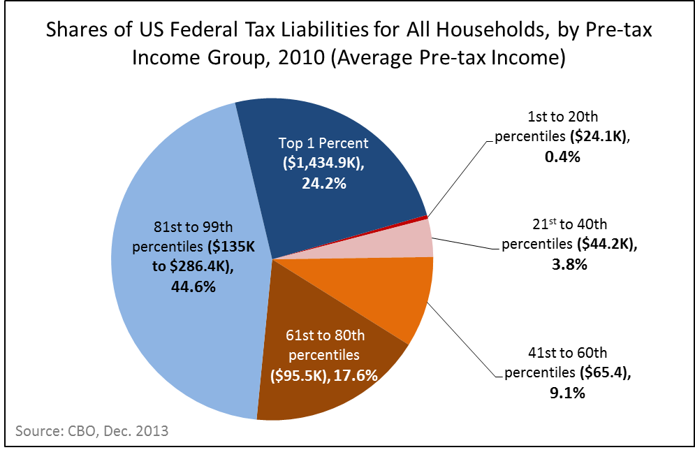 Share of US Individual Income Tax Payments, including payroll taxes, by Income Group, 2010. Source data, US Congressional Budget Office, December 4, 2013 report.